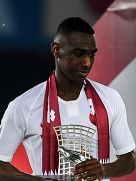 Almoez Ali